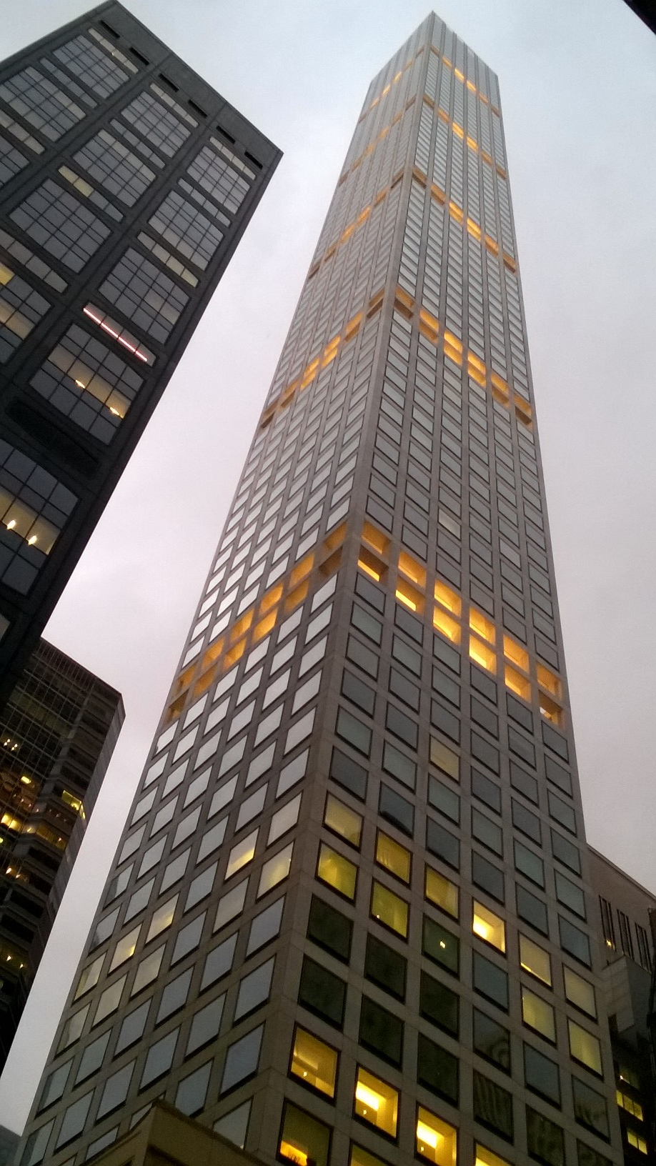 Exterior shot of 432 Park Avenue at dusk, looking southwest from 57th Street in New York City.